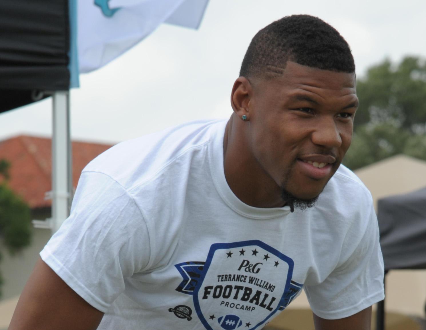 Dallas Cowboys wide receiver Terrance Williams poses with a child at at Joint Base San Antonio-Randolph.